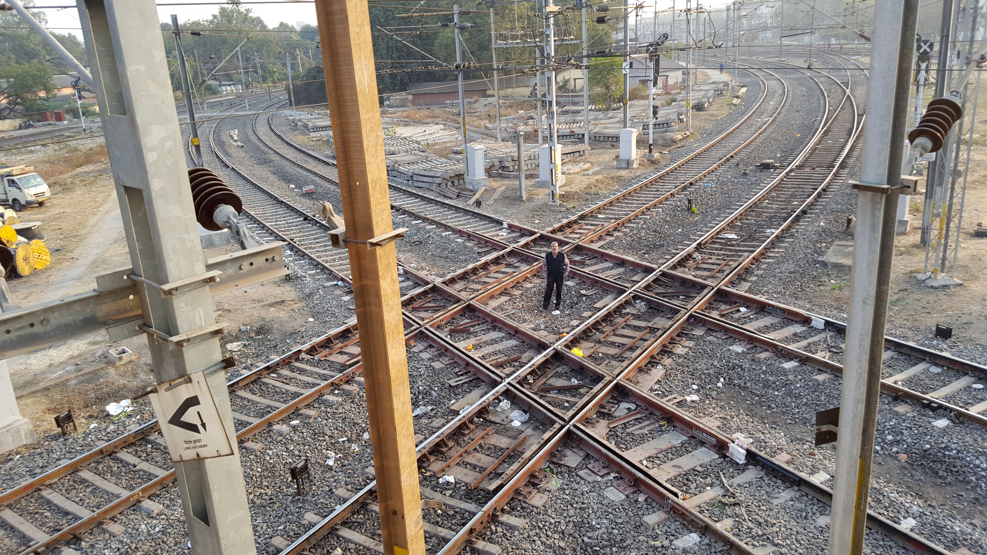 The diamond Crossing at Nagpur is a unique marvel of engineering that exists in very few places in the World. Nagpur is where trunk railway lines running from Kolkata in the Eastern end of India to Mumbai in the Western end, and the one from Delhi in the Northern end to Chennai and other places in the southern end cross. Nagpur in fact is the geographical Centre of the Indian subcontinent. The double lines crossing from the North to the South and those from East to West form a square shape and is called the diamond crossing. It is crucial and is used widely. The people who operate the lines are ever vigilant. Narayan Ramdas Iyer at the Diamond Crossing, Nagpur.